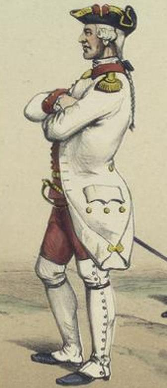 1768 Capitan del regimiento de Soria